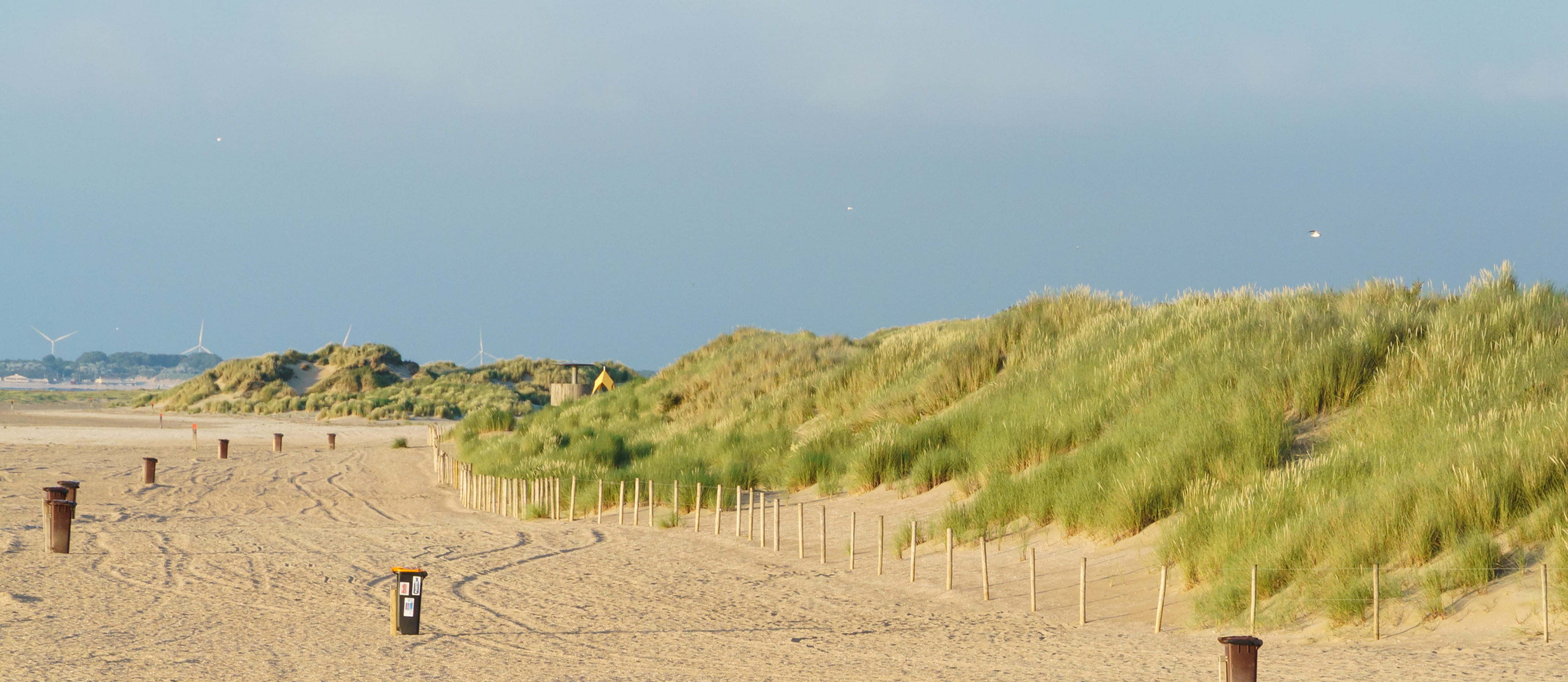 Sandhill at beach pavilion Paal-10 at the beach of Ouddorp before sunset